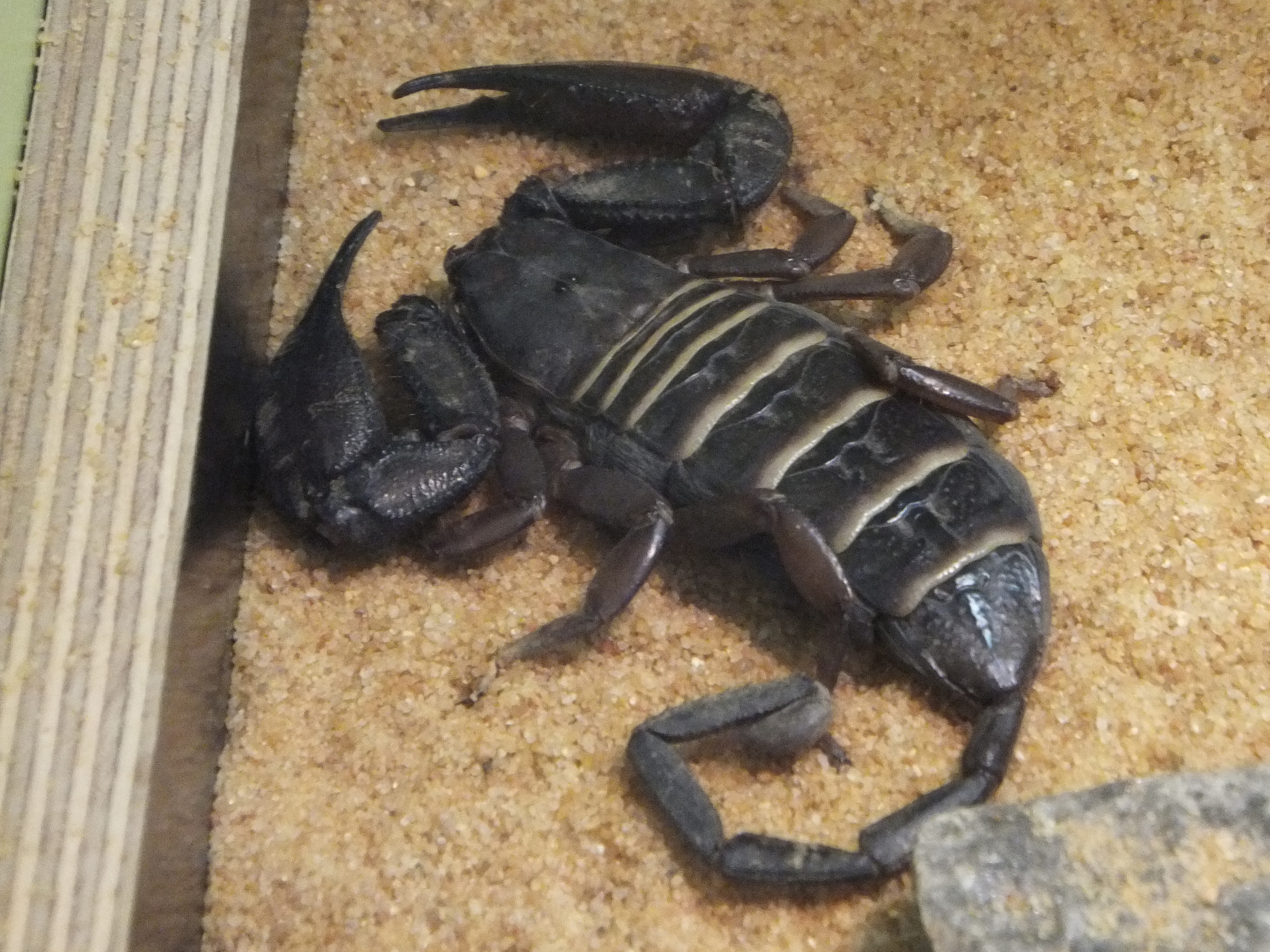 "SPIDERS" exposition at the Museo di storia naturale Giacomo Doria - Hadogenes paucidens